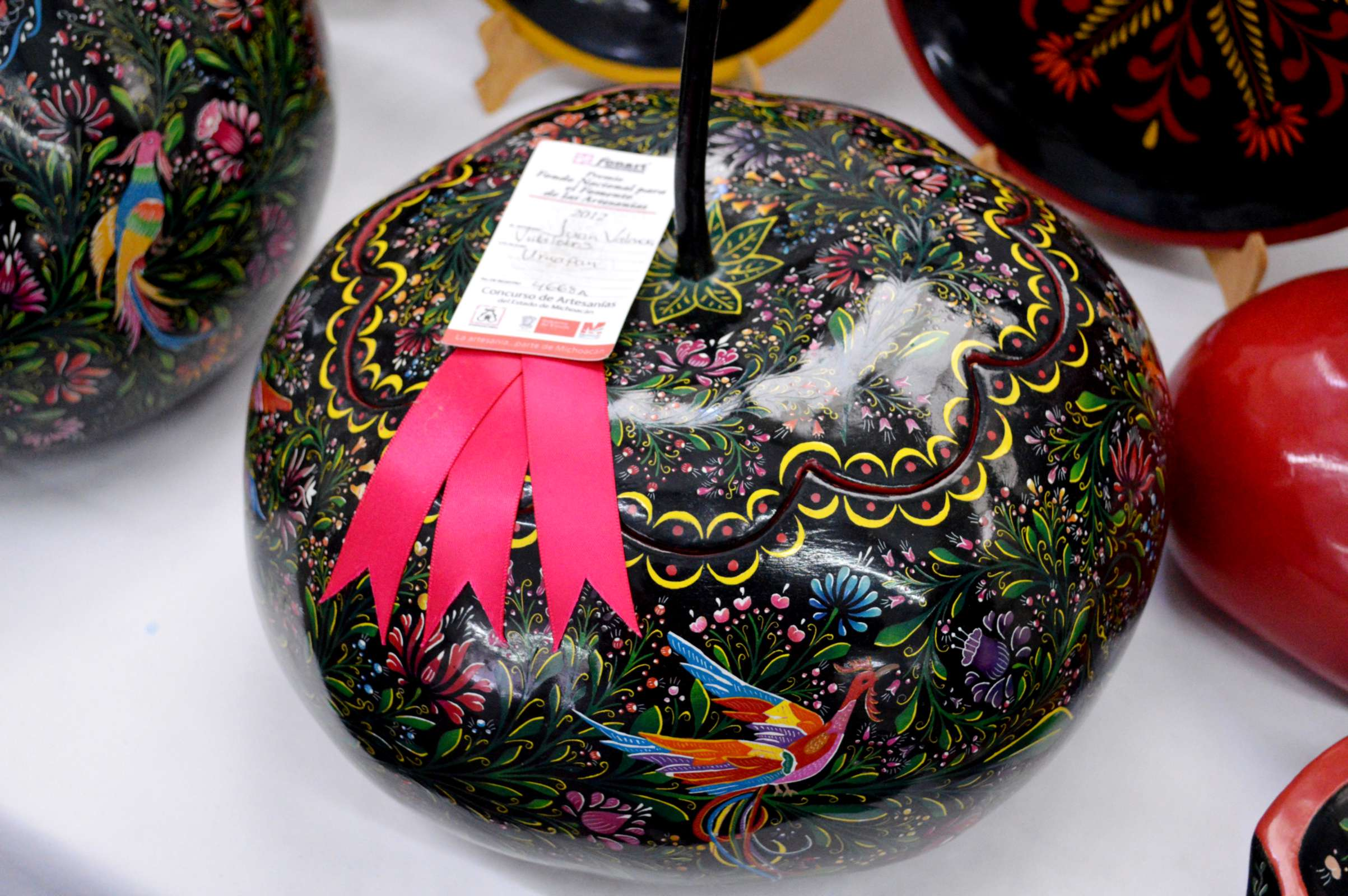 Maque gourd by Juan Valencia Villalobos of Uruapan at the Tianguis de Domingo de Ramos in Uruapan, Michoacan, Mexico